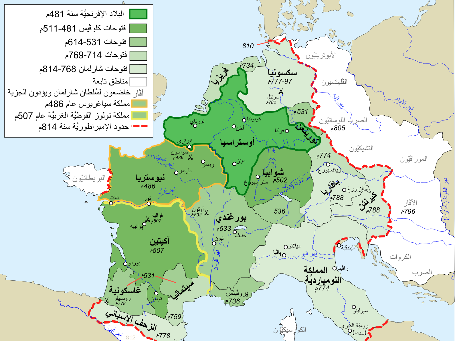 Map of the rise of Frankish Empire, from 481 to 814.